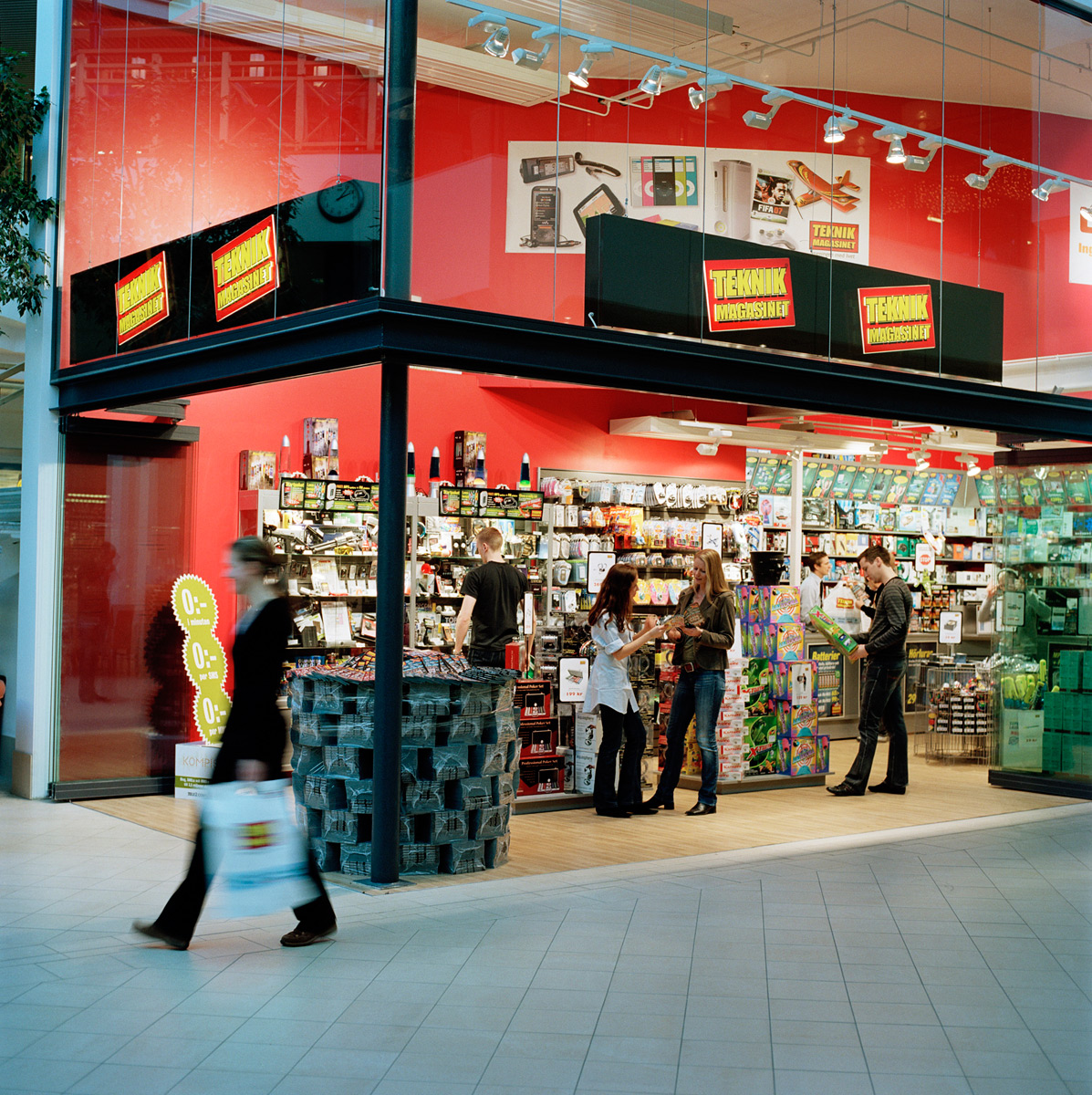 Teknikmagasinet, Sollentuna 2007